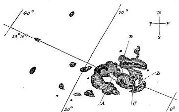 Drawing of the first solar flare, observed by Richard Carrington in 1859 (MNRAS 20, 13-15)